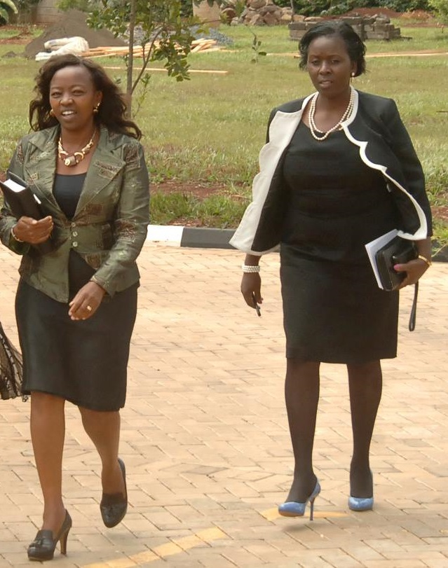 Rosalyn Nandwa (right) with H.E. Rachel Ruto